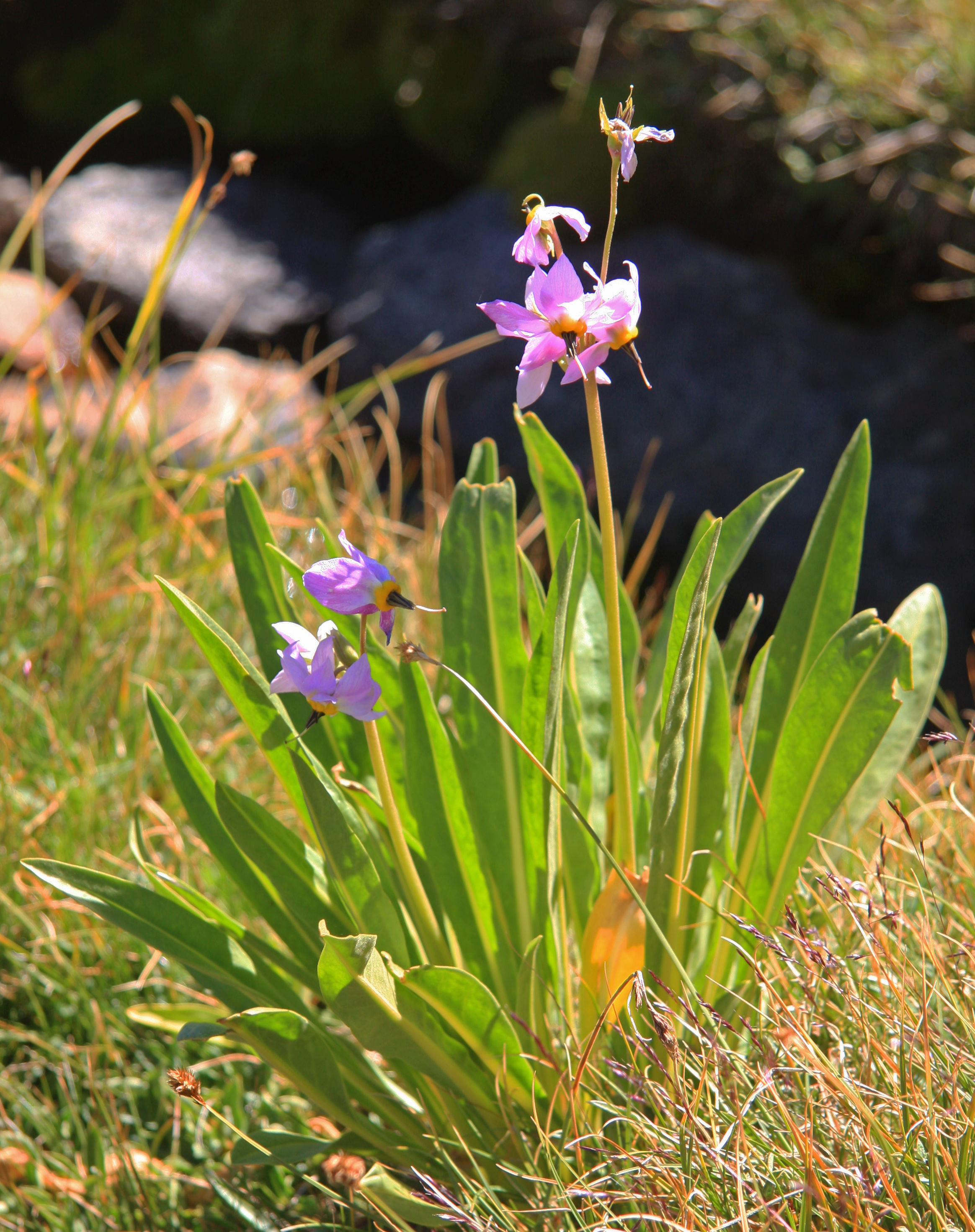 Jeffrey's shooting-star (Dodecatheon jeffreyi), backlit plant in meadow. At 11,280 ft (3,440 m) North of Forester Pass, Kings Canyon National Park, Sierra Nevada USA.